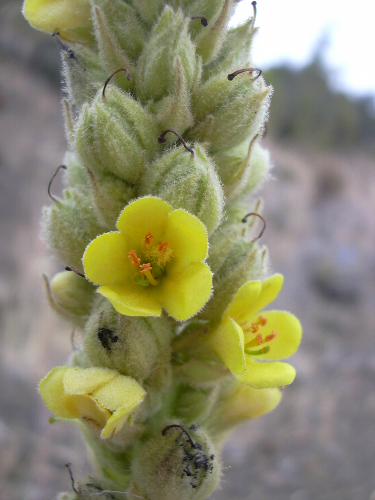 Verbascum thapsus (flowers). Location: Hawaii, Puu Kole